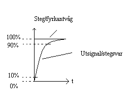 Risetime explanation